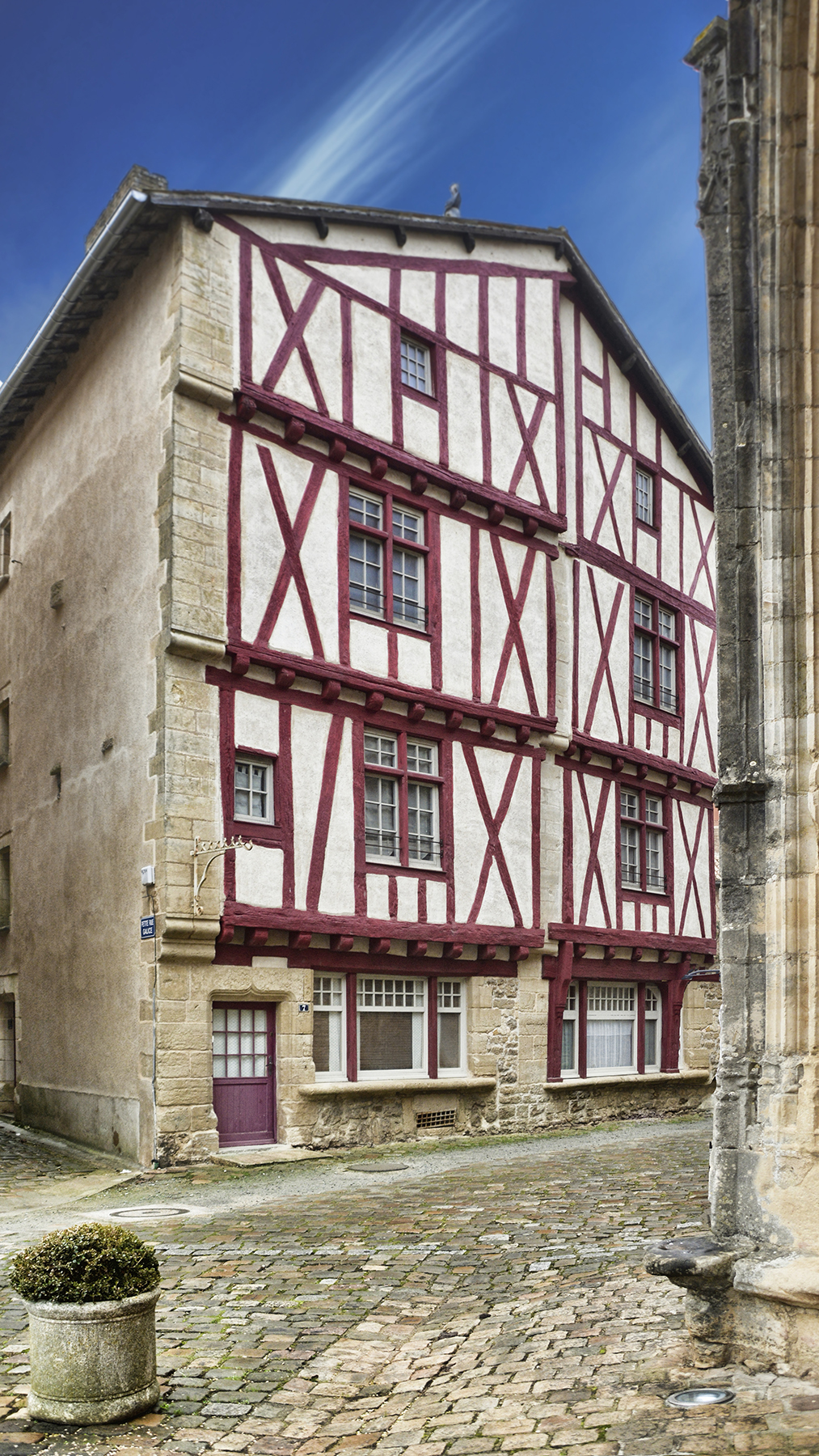 Face exposed .